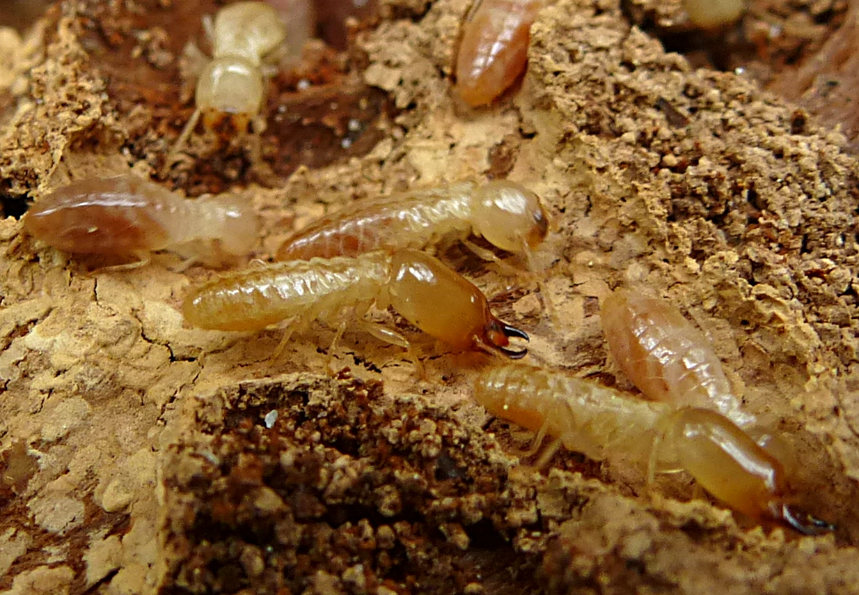 Colony of Kalotermes flavicollis in Corte, Corsica 2014